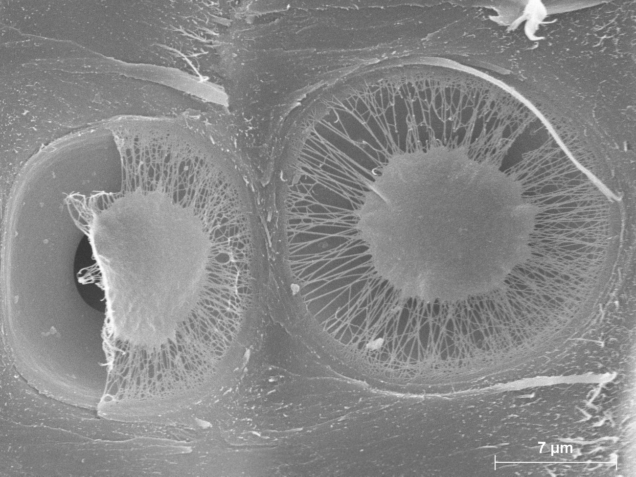 Bordered pits (Picea abies)